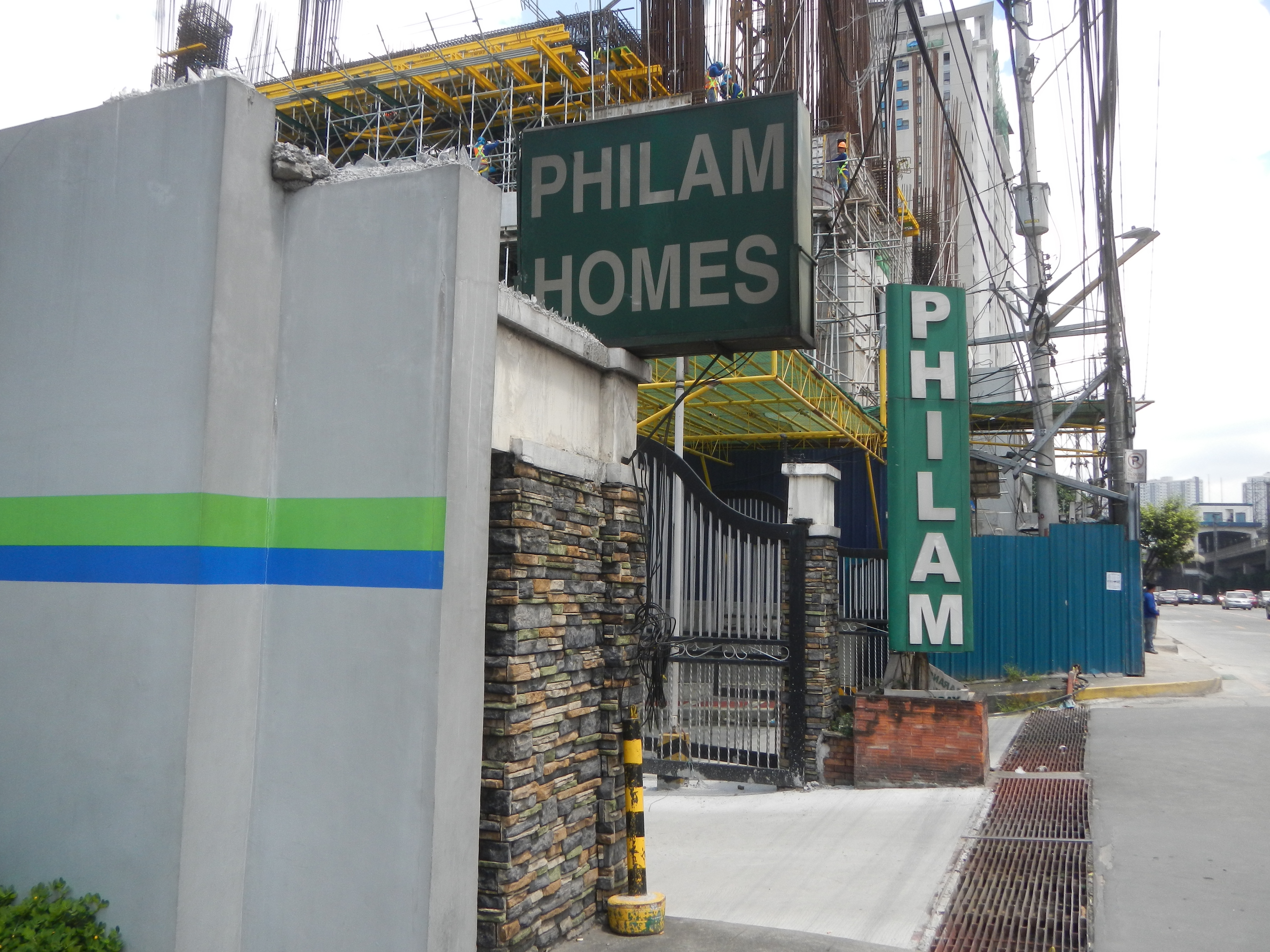 Earl Carroll Civic Park developed in 1955 by Carrol, Chief Executive of Philippine Amercan Life Insurance Company, May 25, 1980 Marker Philam Homes (landmark is the Santa Rita de Cascia Parish Church (Philam Homes, Quezon City) Laying of Cornerstone January 6, 1956 Inaugurated June 2, 1957, Dedicated December 1999 and Solemnly Consecrated December 30, 1993 Bishop Pedro N. Bantigue, D.D. Hall Roman Catholic Diocese of Cubao List of barangays of Metro Manila, List of barangays of Metro Manila, Legislative districts of Quezon City District I, Barangays of Quezon City Barangay West Triangle beside Philam Homes, Philam, beside Bungad District 1, Diliman, Quezon City; along EDSA (road) Epifanio de los Santos Avenue (EDSA, Roosevelt Avenue-Quezon Avenue-Kamuning, Quezon City section) to Epifanio de los Santos Avenue (EDSA, Balintawak-Roosevelt Avenue, Quezon City section) to List of roads in Metro Manila (Note: Judge Florentino Floro, the owner, to repeat, Donor Florentino Floro of all these photos hereby donate gratuitously, freely and unconditionally all these photos to and for Wikimedia Commons, exclusively, for public use of the public domain, and again without any condition whatsoever).